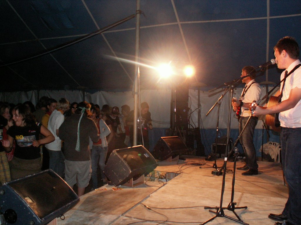 Lazze Ohlyz on stage at a festival in Norway 2007.